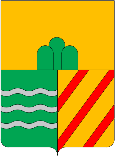 Coat of arms of the House of Rivera.